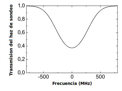 Probe transmission curve (Doppler-free saturation spectroscopy)